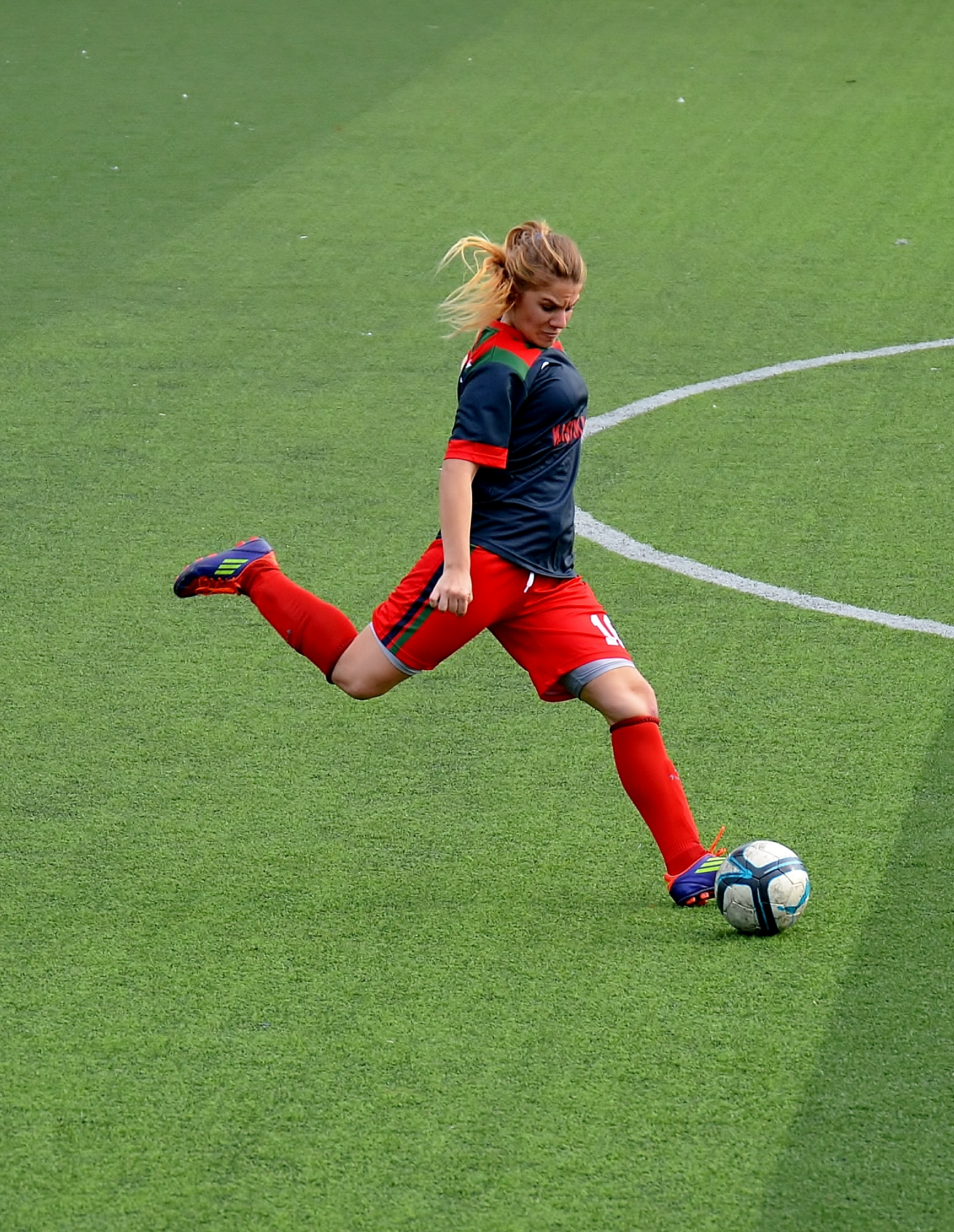 Pamuk Güllü Yılmaz playing for Karşıyaka BESEM Spor in the away match against Ataşehir Belediyespor (2014-15 season)